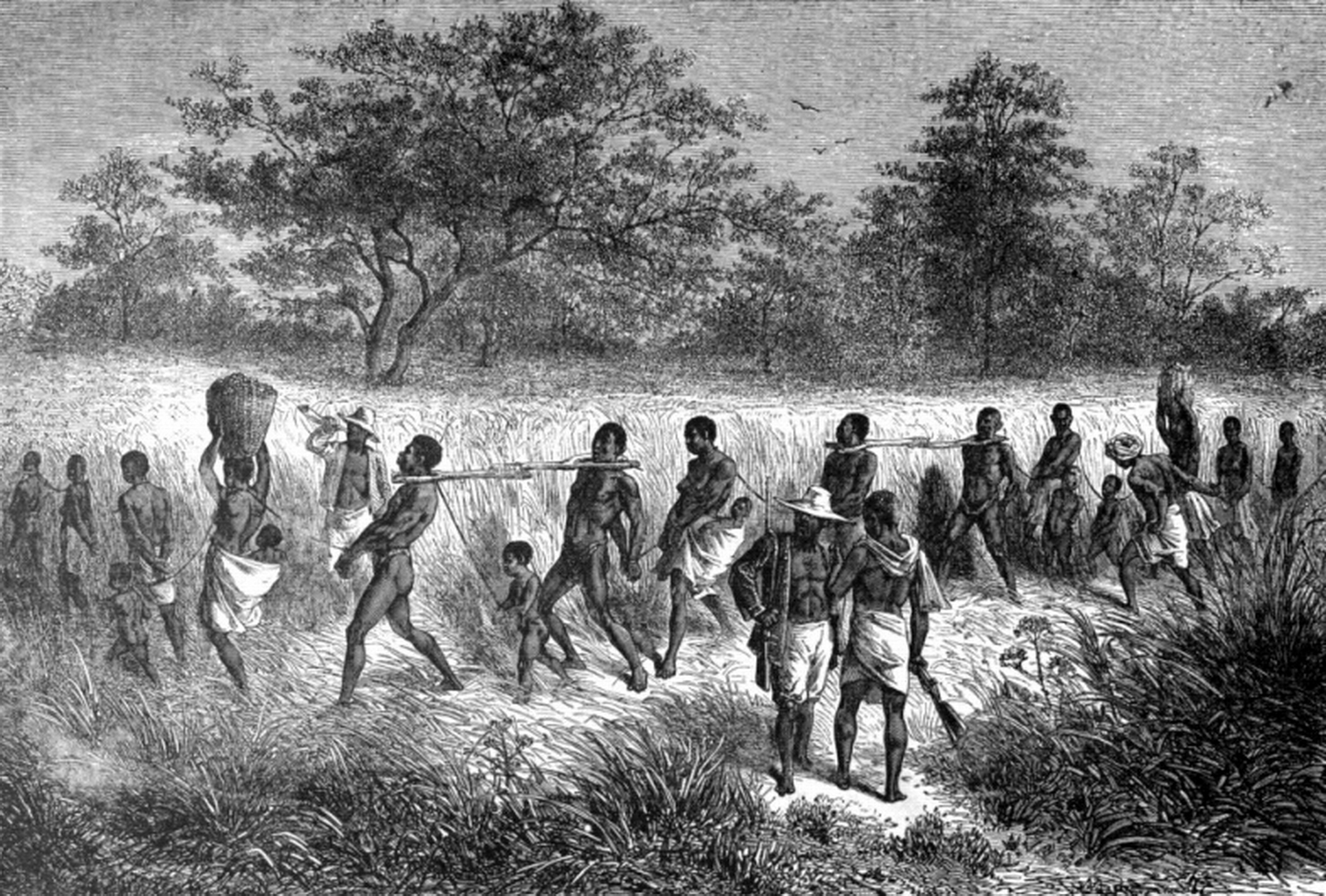 The number is a page number in the book, "Woman Triumphant"; the story of her struggles for freedom, education, and political rights. Dedicated to all noble-minded women by an appreciative member of the other sex by Author: Rudolf Cronau. (1919). The name of the image is the caption name. Follow the link from the image to the full book